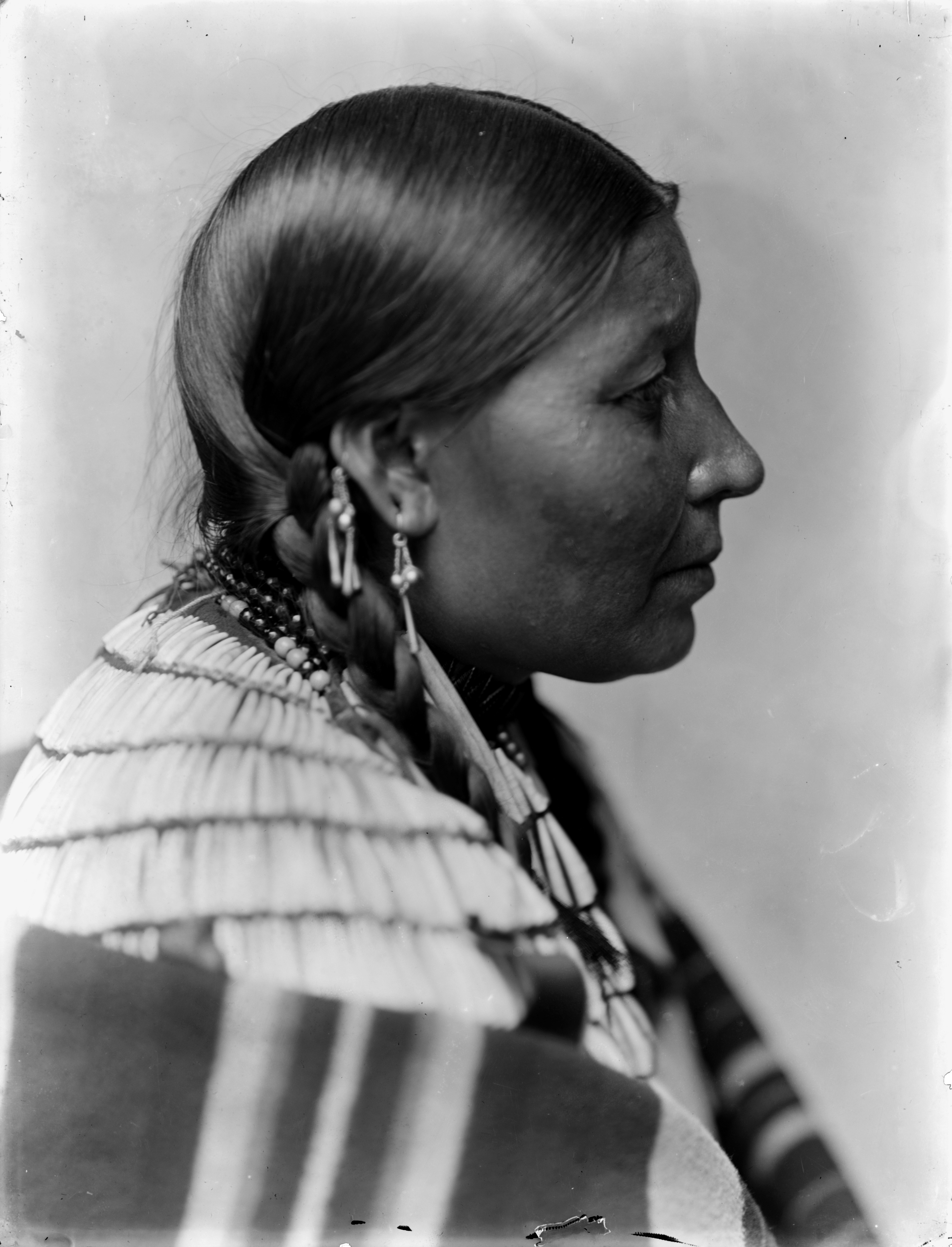 Mrs. American Horse, probably a member of Buffalo Bill's Wild West Show, head-and-shoulders portrait, facing right.